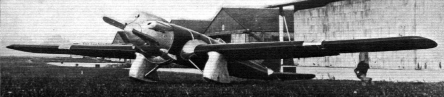 The Makhonine Mak-10 wiyh its wings fully extended